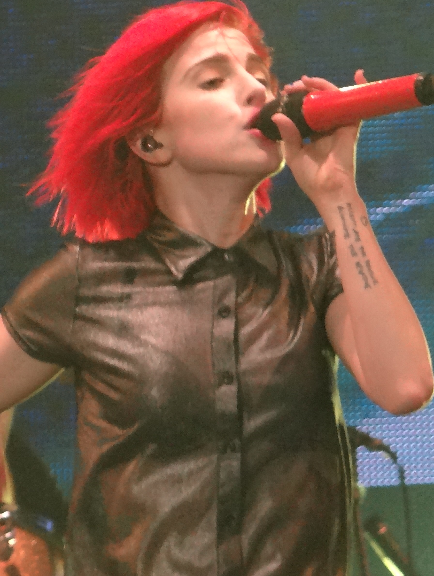 Hayley Williams performing with Paramore at the Circuito Banco do Brasil festival in São Paulo, 2014.